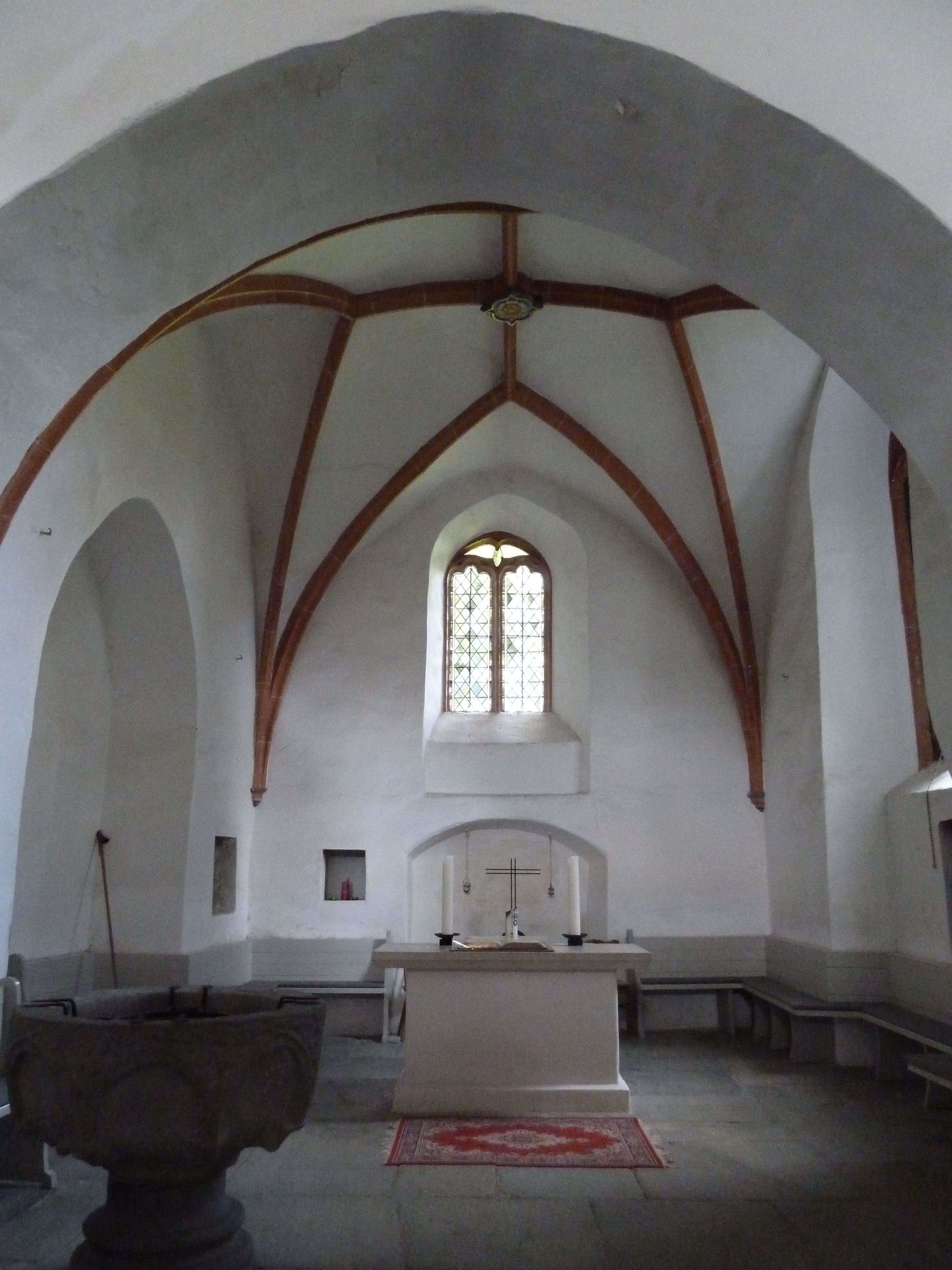 Feldkirche Habenscheid, Gemeinde Wasenbach, Rhineland-Palatinate